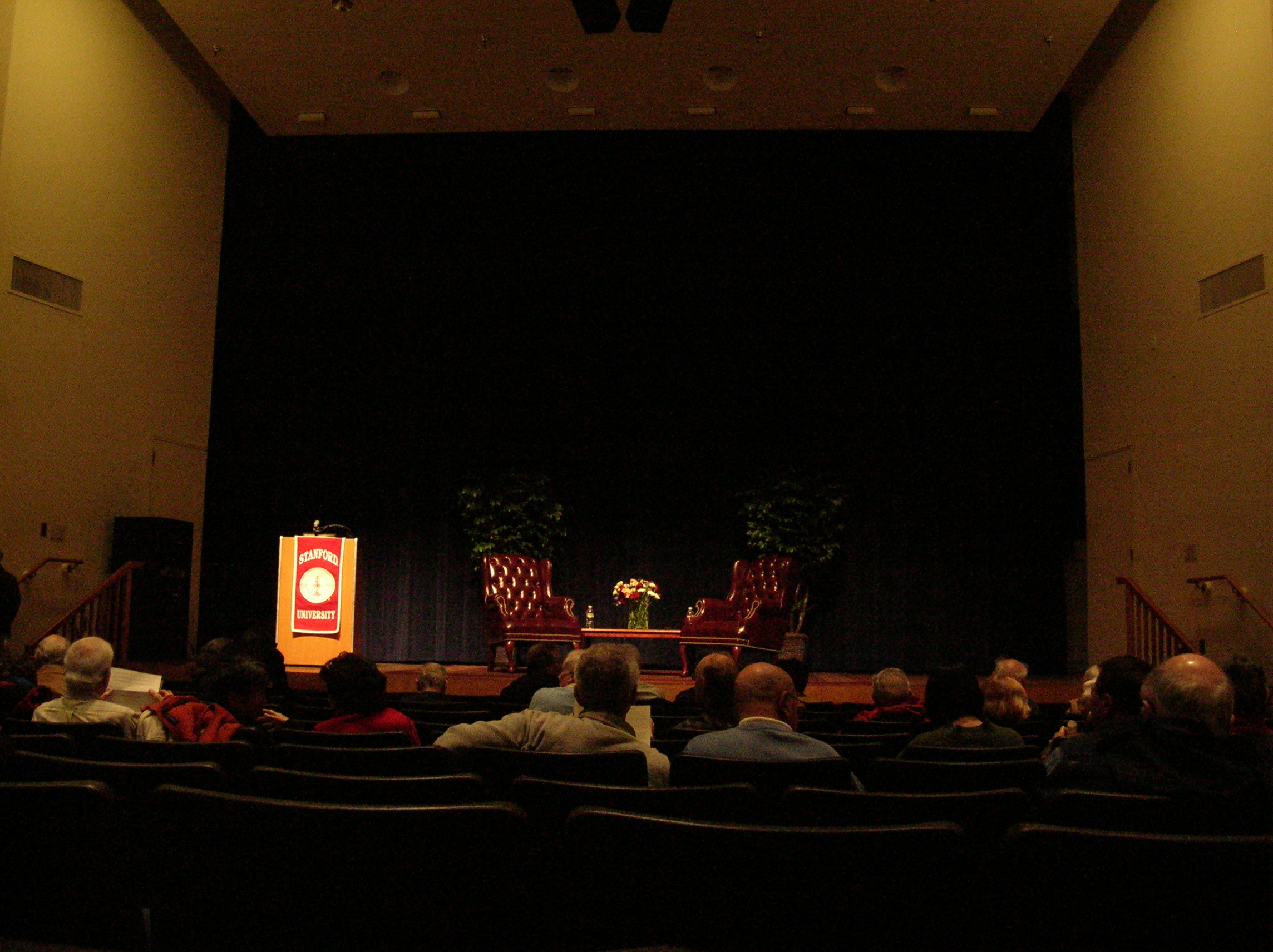 Cubberley Auditorium at the Stanford School of Education at Stanford University set up for the Stanford Pioneers in Science series. Nobel Laureate in Physics Burton Richter was the featured pioneer for March.